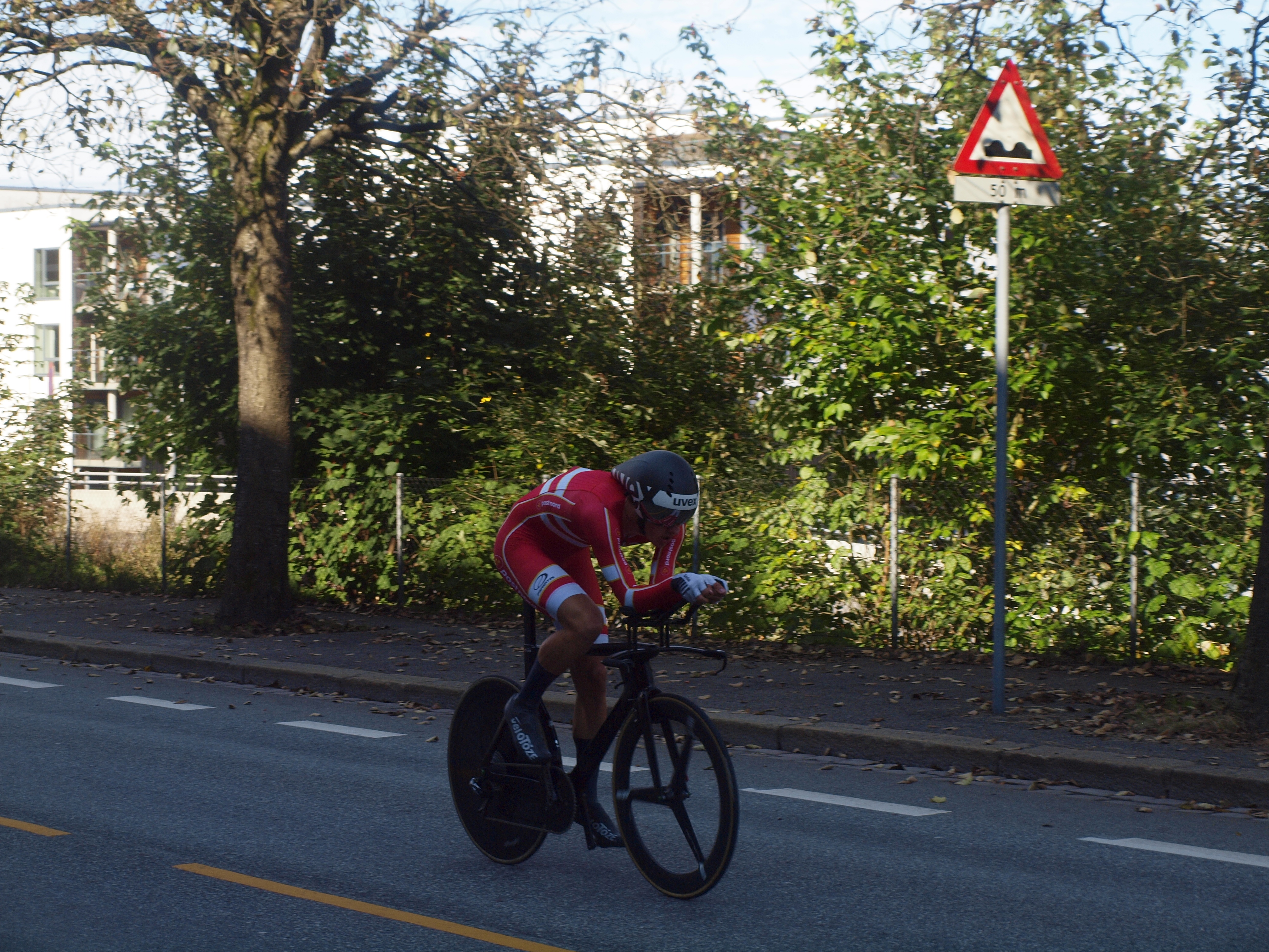 Mikkel Bjerg at the 2017 UCI World Championships